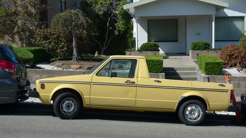 I guess the owner of this one wants to save as much street parking space as possible -- note the very tight clearances...